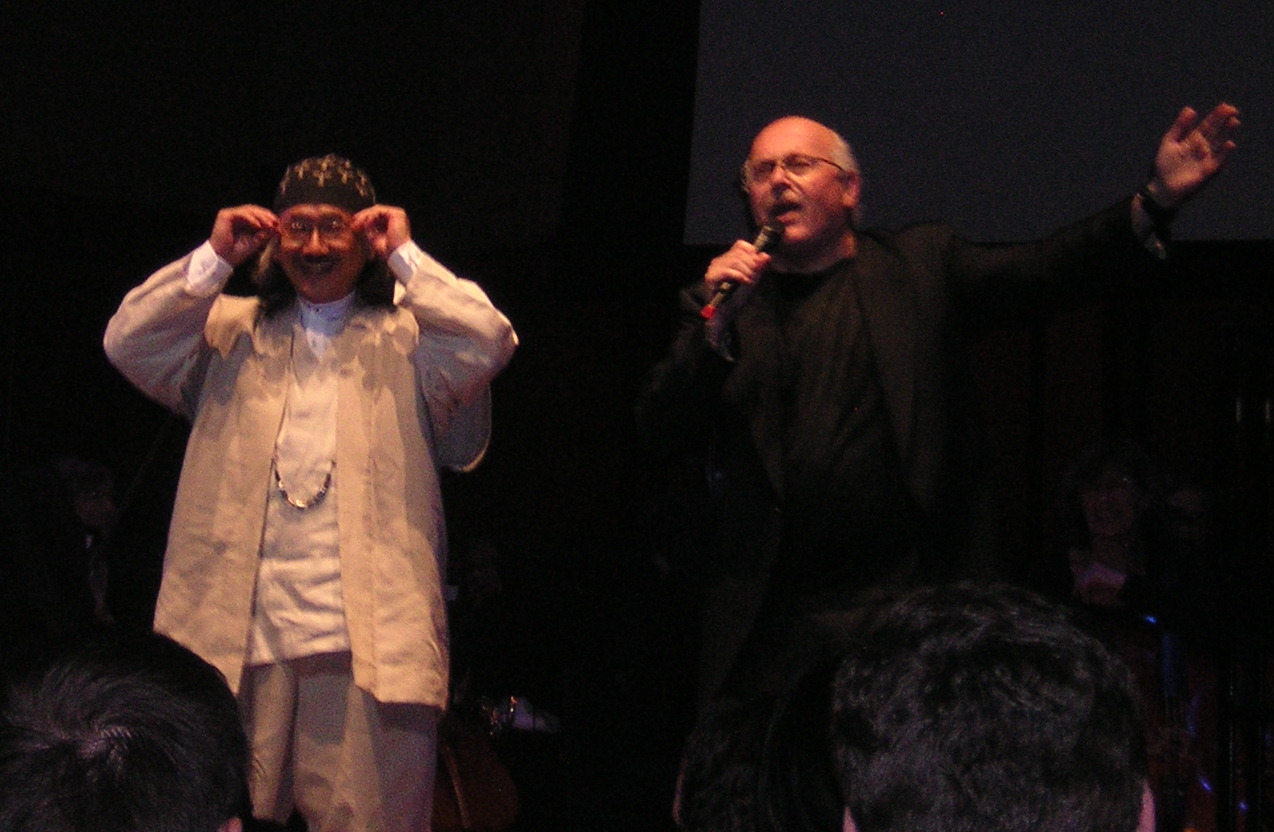 Composer Nobuo Uematsu and Conductor Arnie Roth at the Distant Worlds: Music From Final Fantasy concert on July 11, 2009 in Benaroya Hall, Seattle, WA.